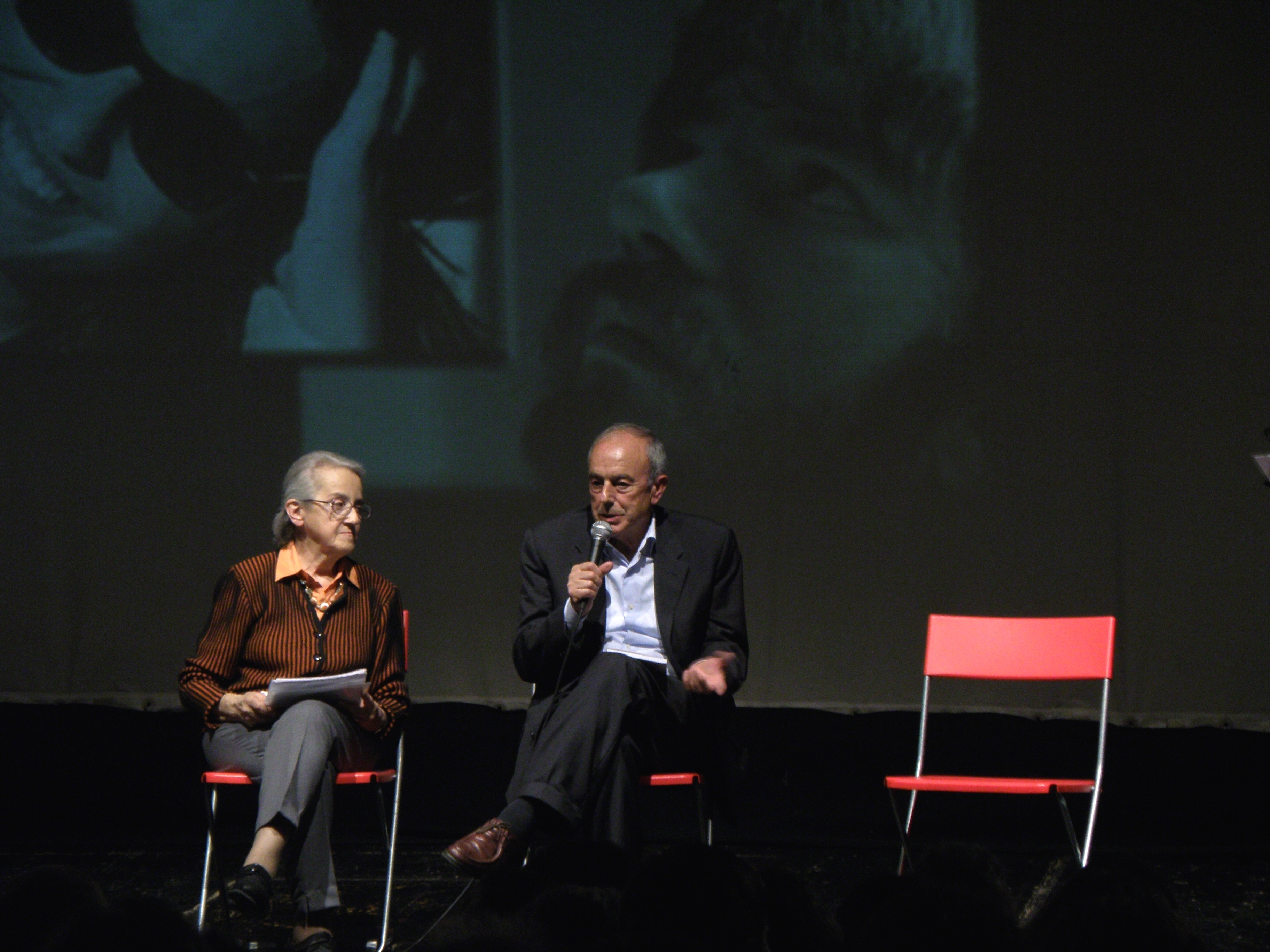 Meeting with the public with Mina Welby and Beppino Englaro (relatives of two italian famous cases of euthanasia, Piergiorgio Welby) and Eluana Englaro), after the play called "Sospesi tra cielo e terra", Milano, 4 Novembre 2011.